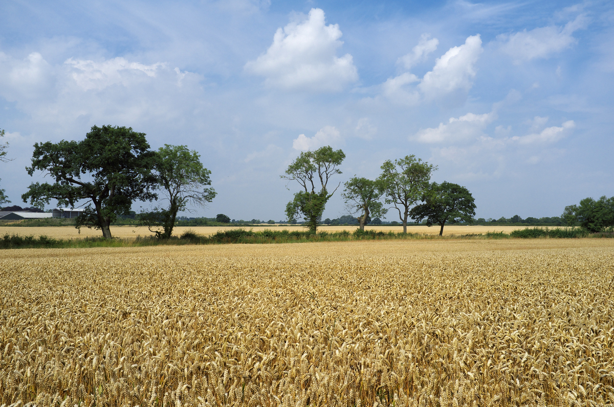 Looking west from Fox Covert Lane across the fields of Fenn Lane Farm (the farm is left, on the skyline). Fen Hole is approximately where the hedge line in the foreground is. The cortege carrying Richard III's remains visited the farm and soil was taken and placed in the king's grave when he was re-buried in Leicester Cathedral in 2015. The fields on either side of Fenn Lanes Roman road correspond to the flat plain which William Burton (writing in the early 1600s) described as the site of the battle: "fought in a large, flat, plaine, and spacious ground, three miles distant from [Bosworth], between the Towne of Shenton, Sutton [Cheney], Dadlington and Stoke [Golding]..," It was in the fields to either side of Fenn Lanes (the route of approach of Richmond's army) that the Battlefields Trust found the round shot and silver-gilt boar badge, identifying the true site of the battle. (Ambion Hill was the site of Richard III's camp, not the site of the battle).